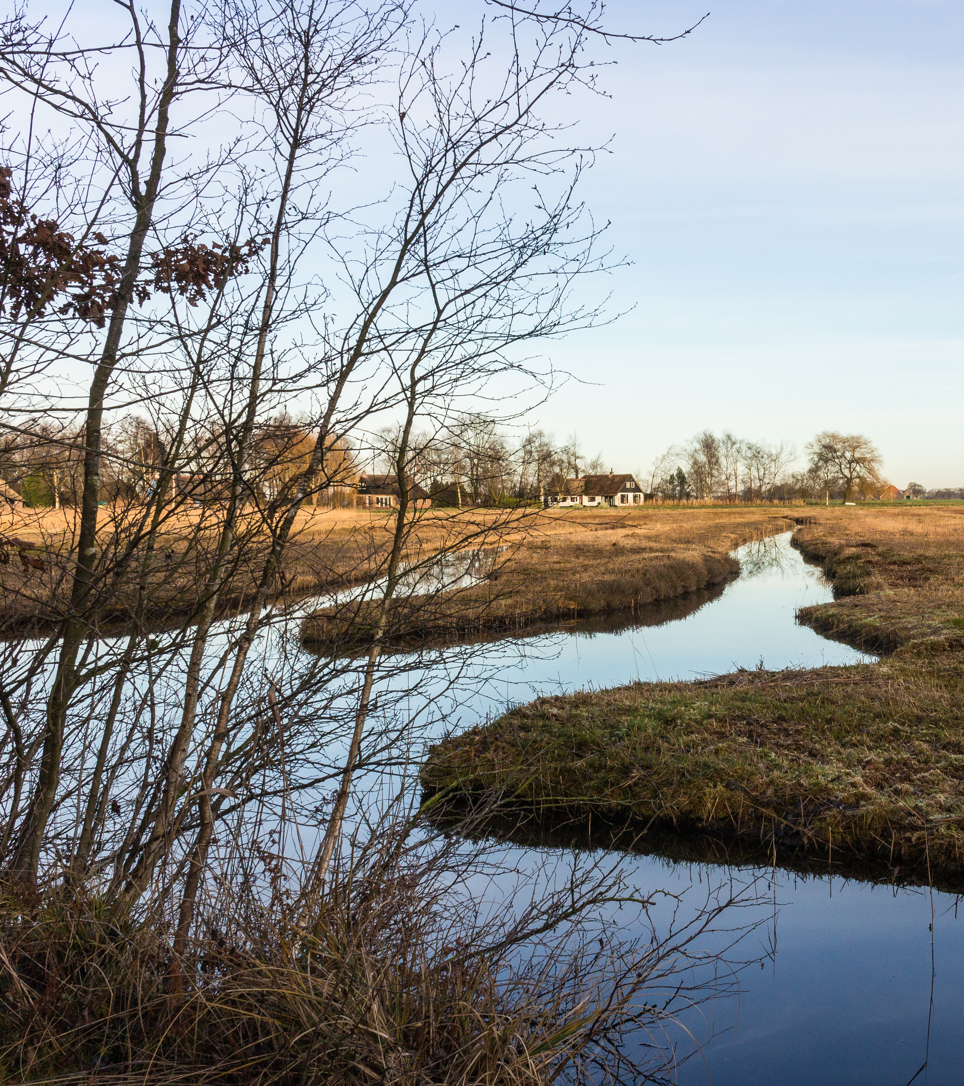 De Weerribben-Wieden National Park. Ditches in reedbeds arise during peat stabbing in former years.